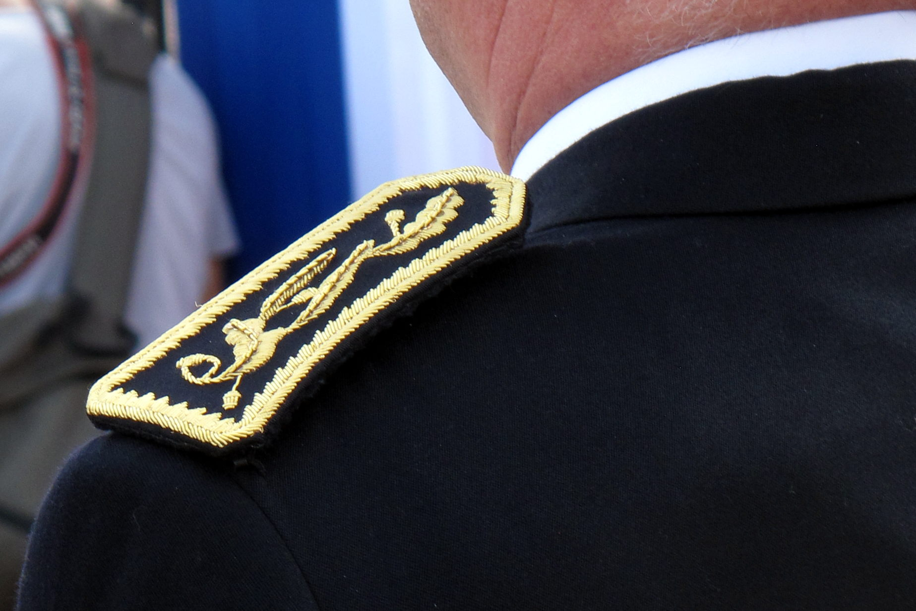 Insignia of a Préfet.